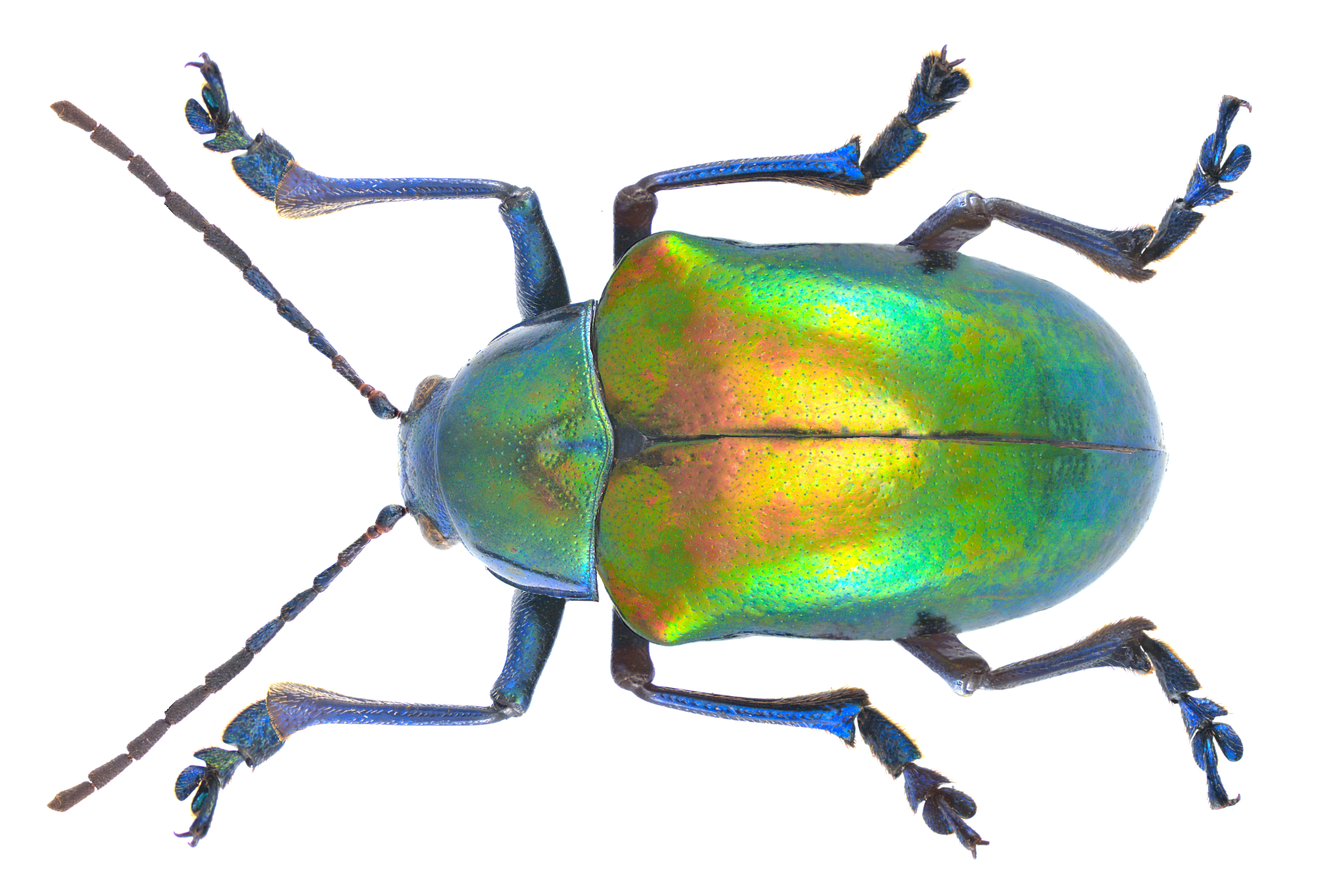 Family: Chrysomelidae Size: 16,5 mm Location: Brazil leg. 1972; det. L.Medvedev, 2013 Photo: U.Schmidt, 2013